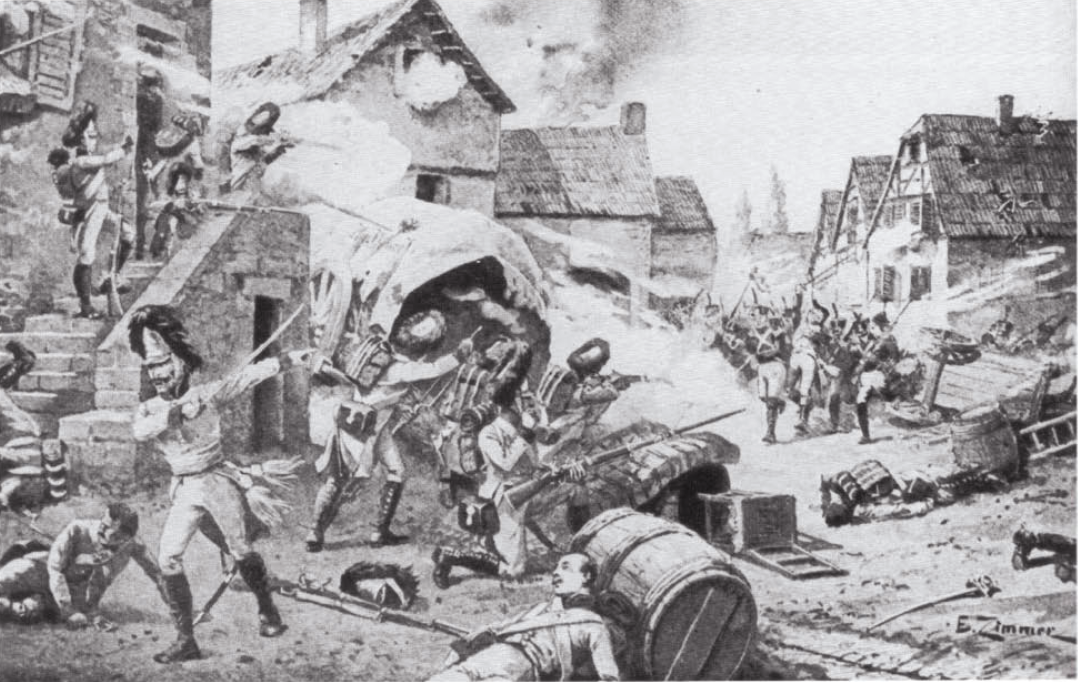 French infantry of Molitor's division (Massena's IV Corps) assault and taken the village of Aderklaa from the Austrian grenadiers (on the left). The Grenadiers and other supportign units needed two full hours before they could retake the position.